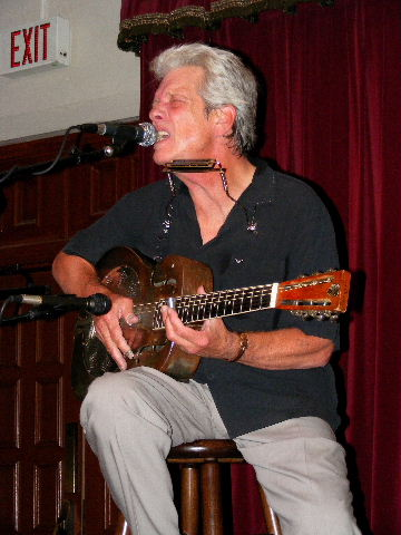 John Hammond performing at Cactus Cafe in Austin, Texas. Photo by Ron Baker (2008).